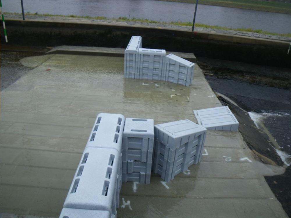 Prague-Troja Canoe Slalom RapidBlocs used to create a freestyle wave, just above the mid-course bridge.